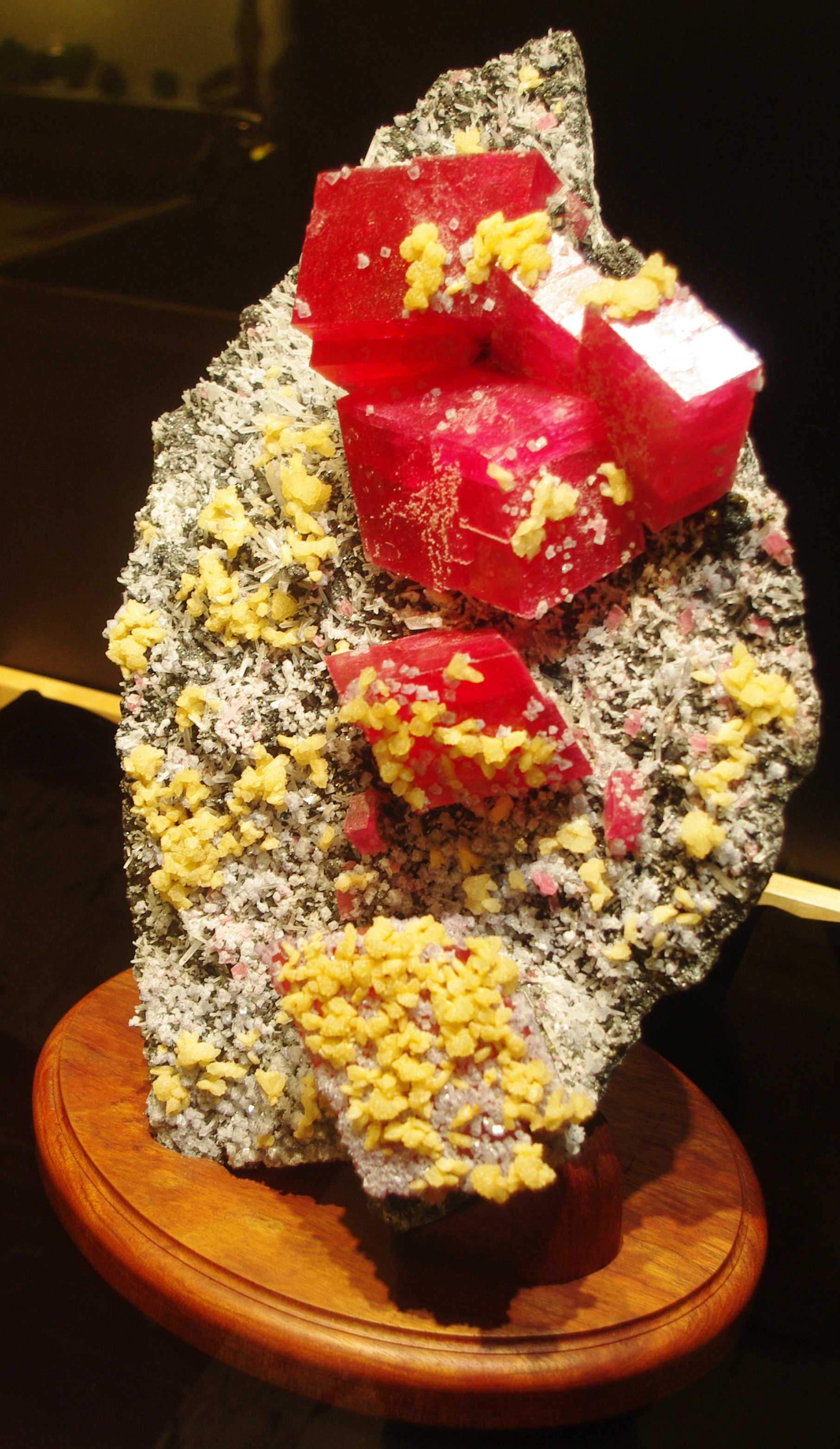 In the collections of the Rice Northwest Museum of Rocks and Minerals in Hillsboro, Oregon, USA. Front view of the Alma Rose, a Rhodochrosite, from the Sweet Home Mine in Alma, Colorado, USA. Weighs 70 pounds.